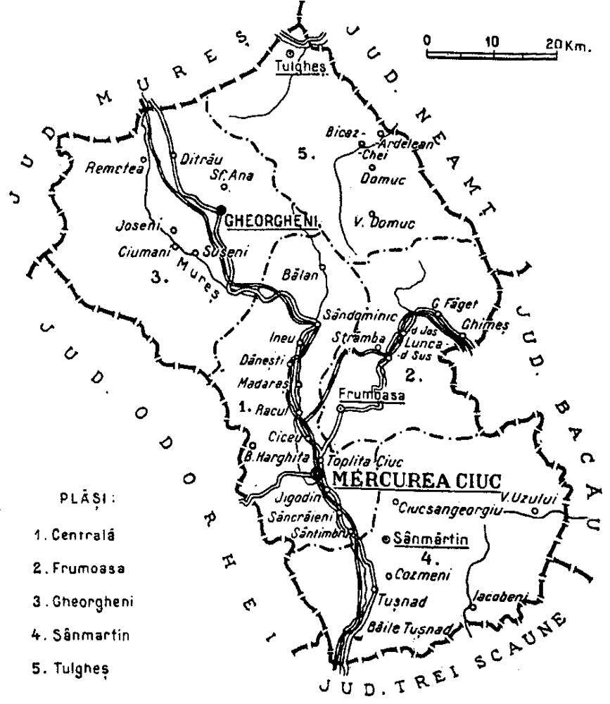 Map of Ciuc interwar county, Kingdom of Romania (1938).